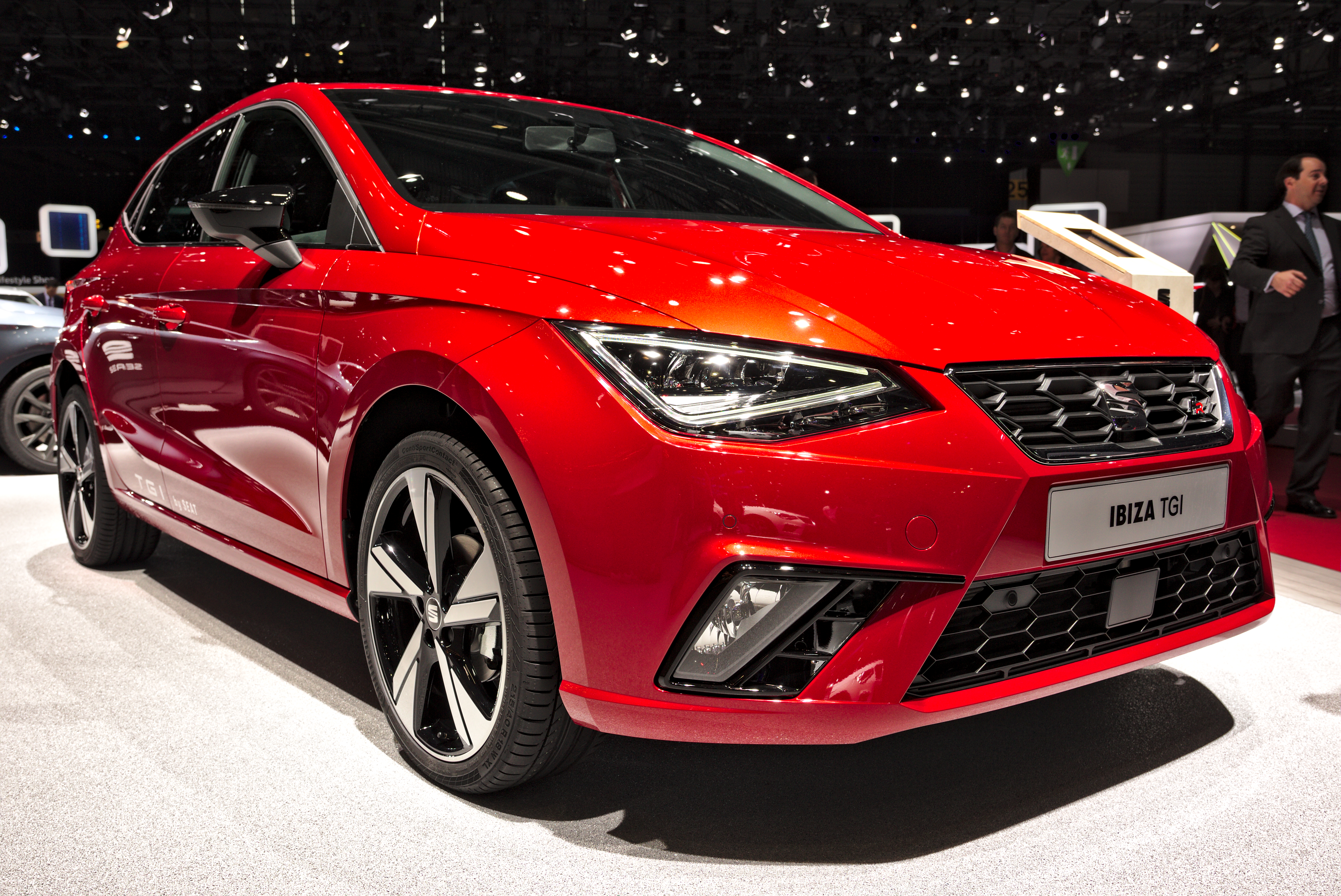 Seat Ibiza TGI at Geneva Motorshow 2018